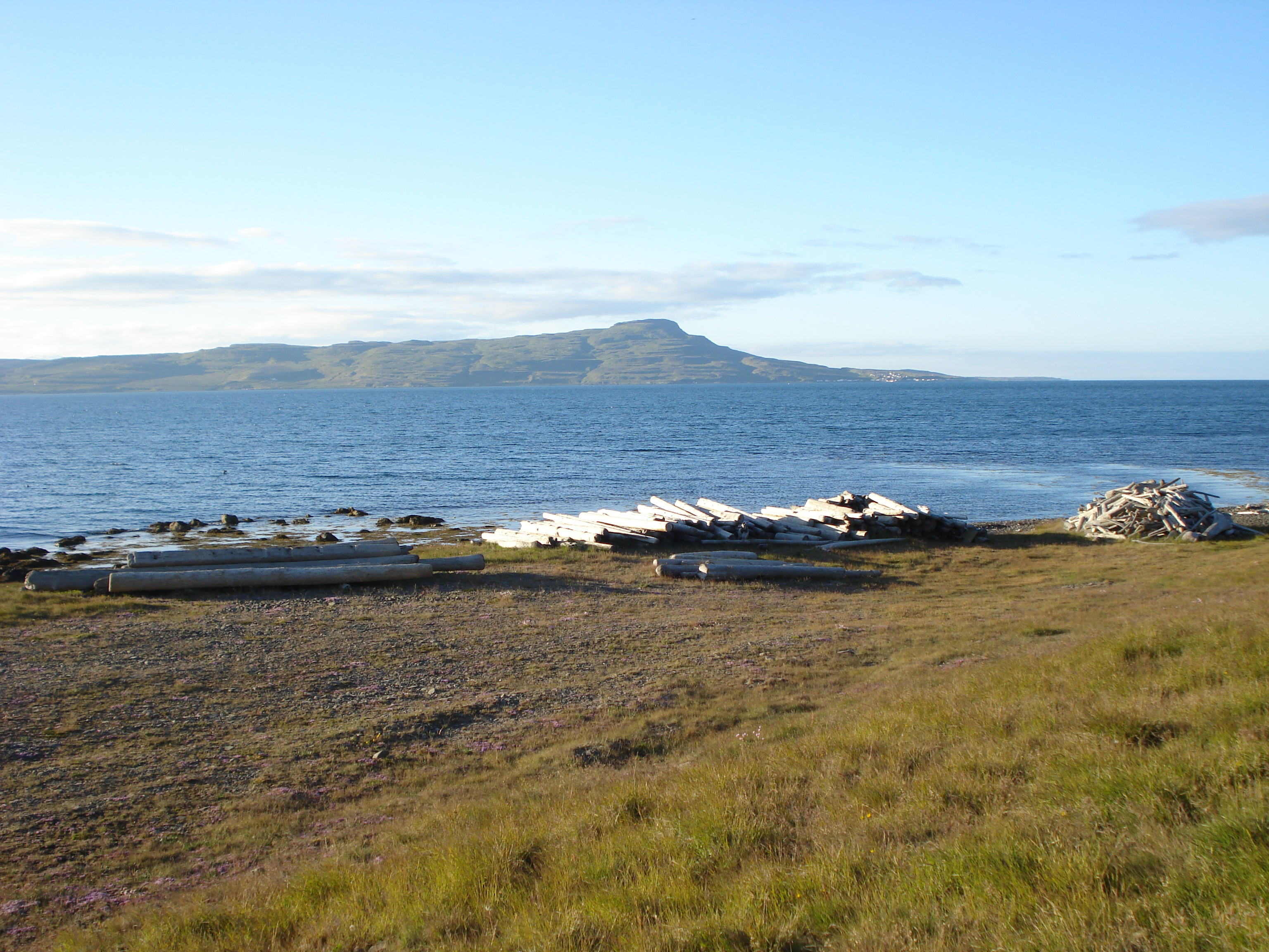 Driftwood Westfjords, Iceland